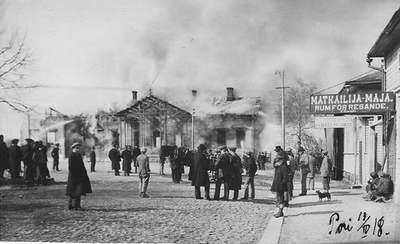 Pori railway station on fire during the 1918 Finnish Civil War.